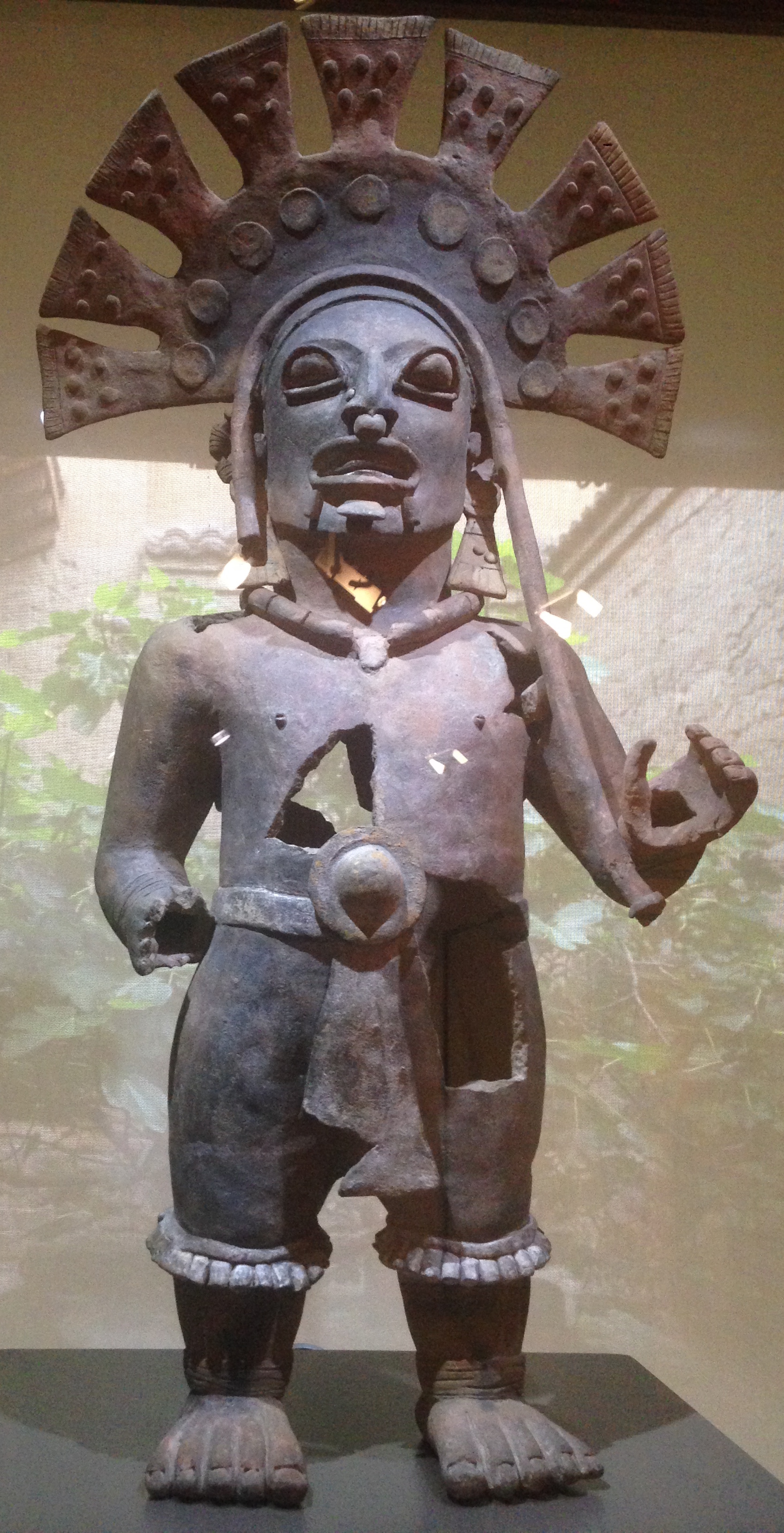 Jama-Coaque statue of a standing elite personage, Museo Casa del Alabado, Quito, Ecuador